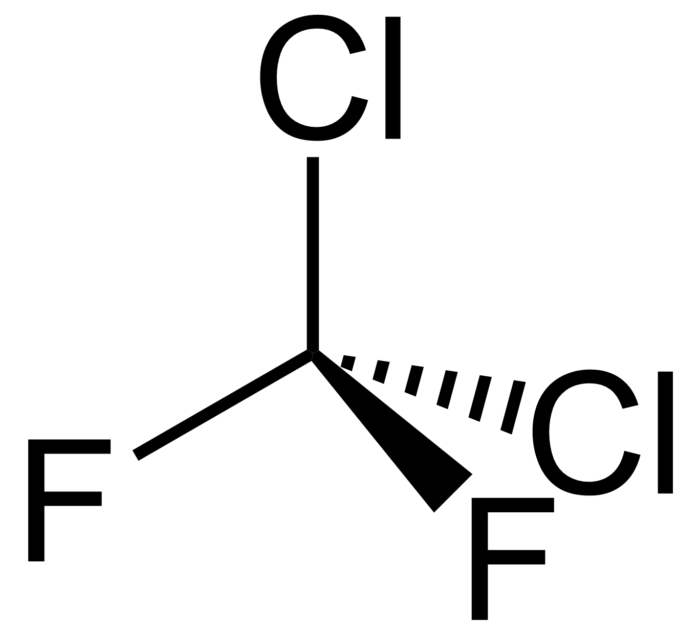 Chemical structure of dichlorodifluoromethane